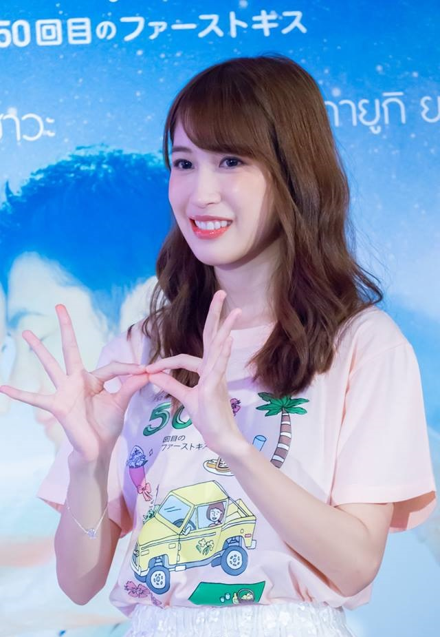 Jan-chan is very cute and bright.